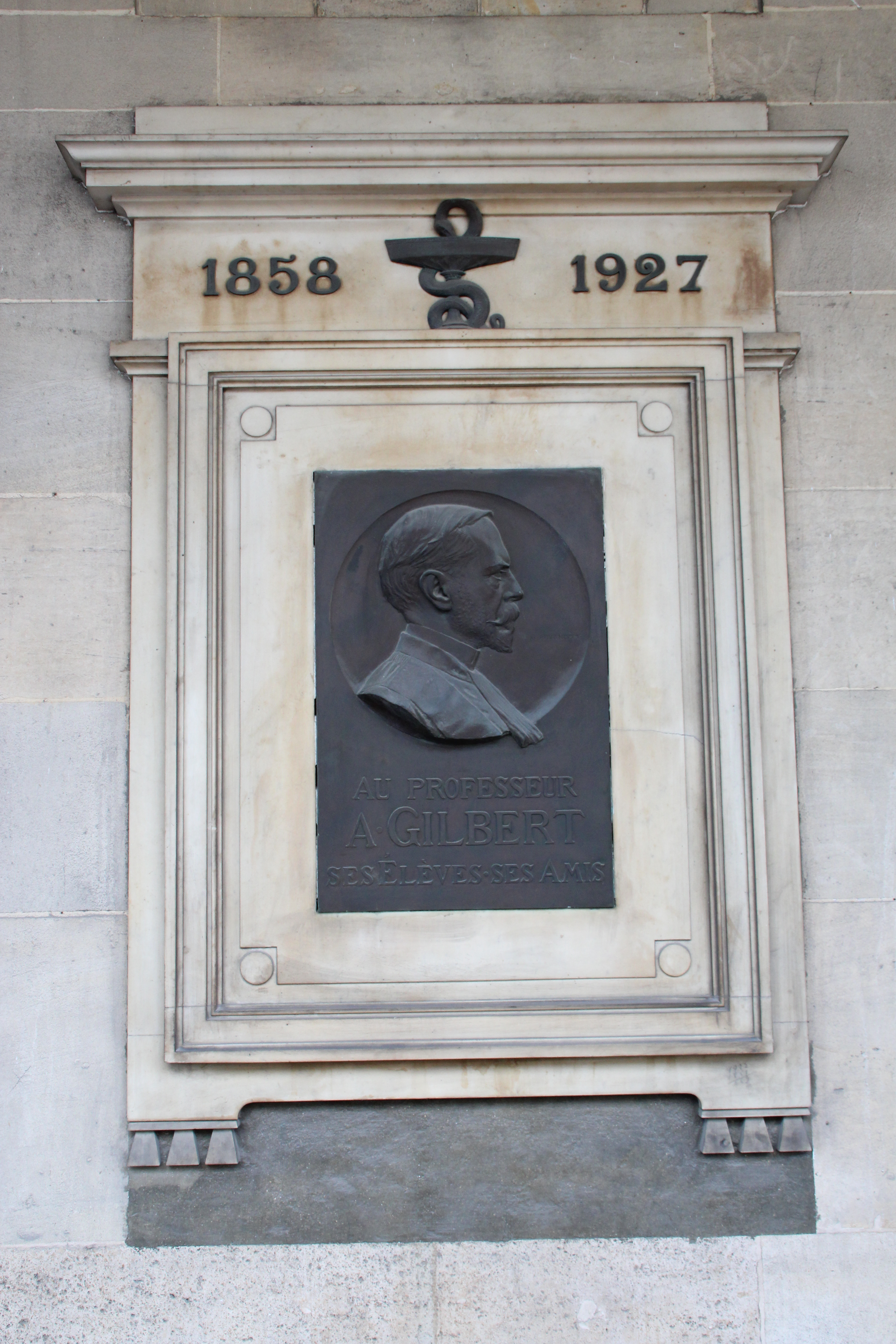 Hôtel-Dieu hospital in Paris, France. Commemorative plaque to Professor A. Gilbert: 1858 - 1927.